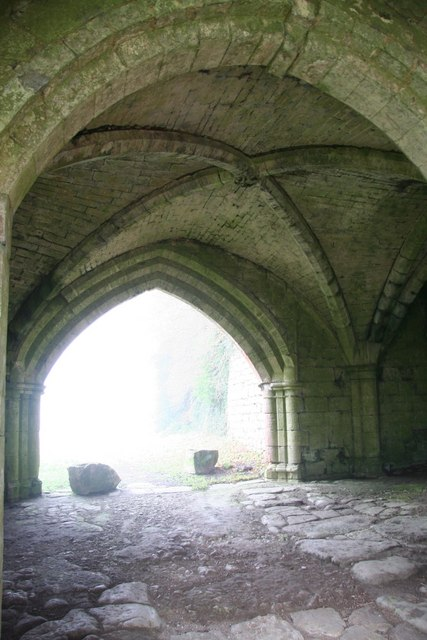 Great Gatehouse vaulting Broad Early English gothic arches and vaulting c1200 in Roche Abbey gatehouse